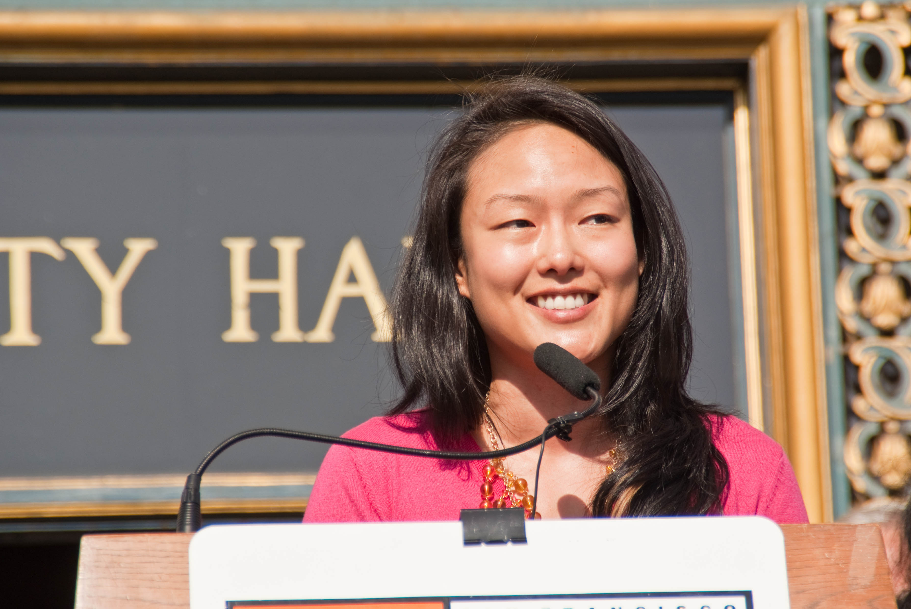 San Francisco Supervisor Jane Kim takes her turn at the lectern in front of City Hall on May 10, 2010, celebrated as Bike To Work Day.